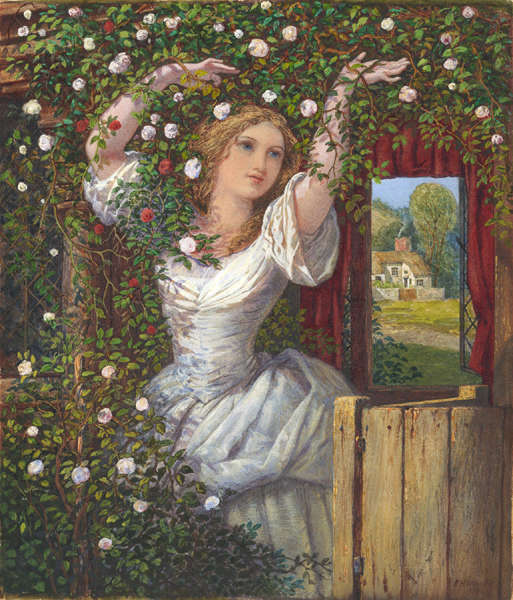 Edward Wehner's watercolour of "The Gardener's Daughter" based on the poem of that name by Alfred Tennyson. It was shown at the 1860 annual exhibition at the Royal Institute of Painters in Watercolour